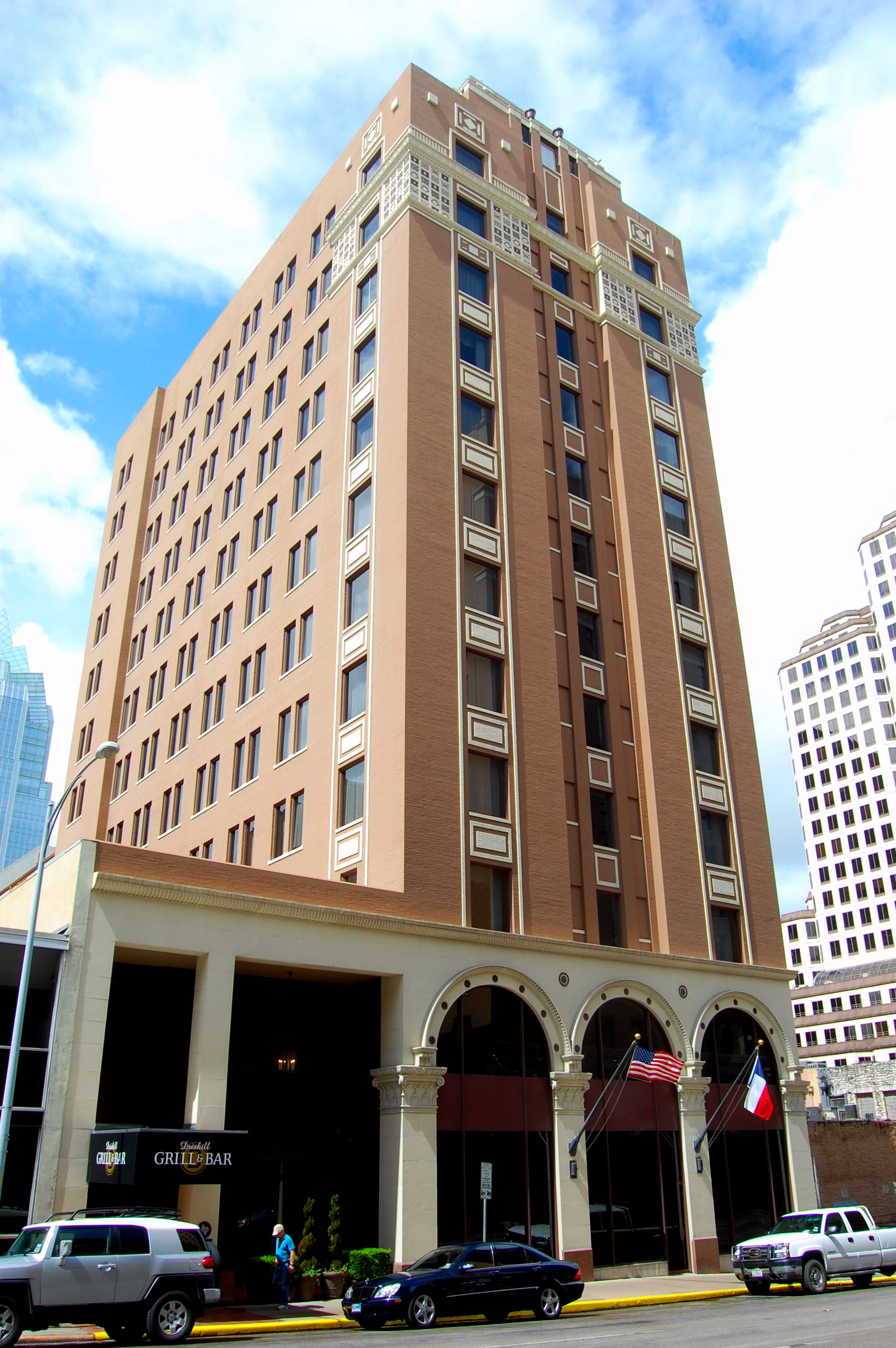 The Driskill Hotel annex in Austin, Texas was built in 1930